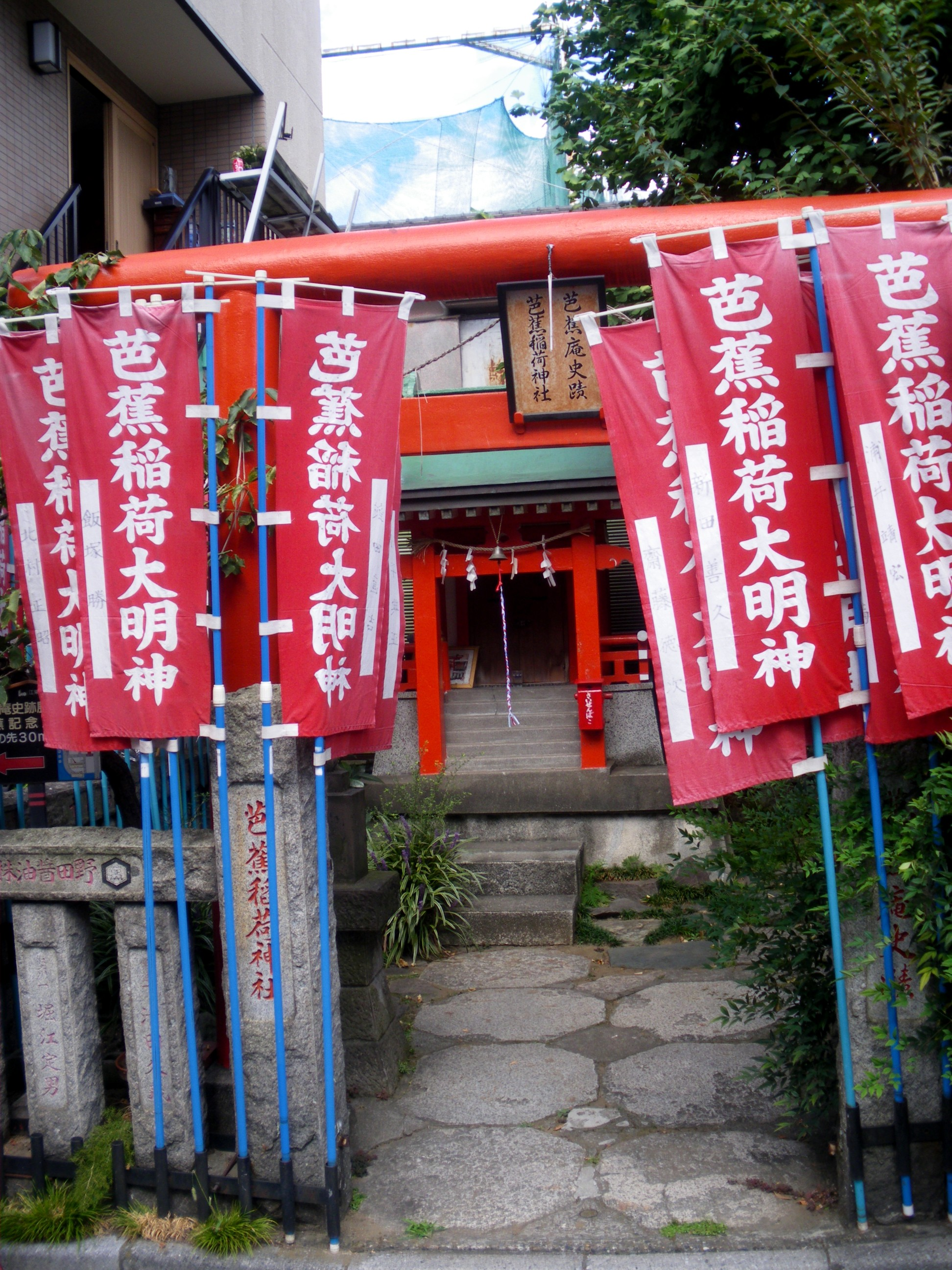 Bashō Inari Shrine (Tokiwa,Koto,Tokyo)